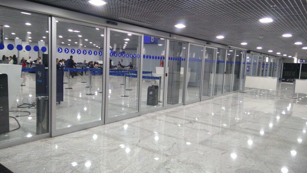 Airport Inside 6